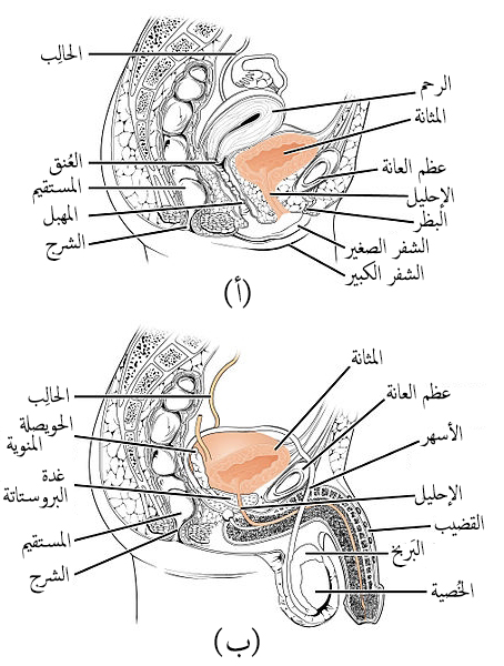 The urethra transports urine from the bladder to the outside of the body. This image shows (a) a female urethra and (b) a male urethra.